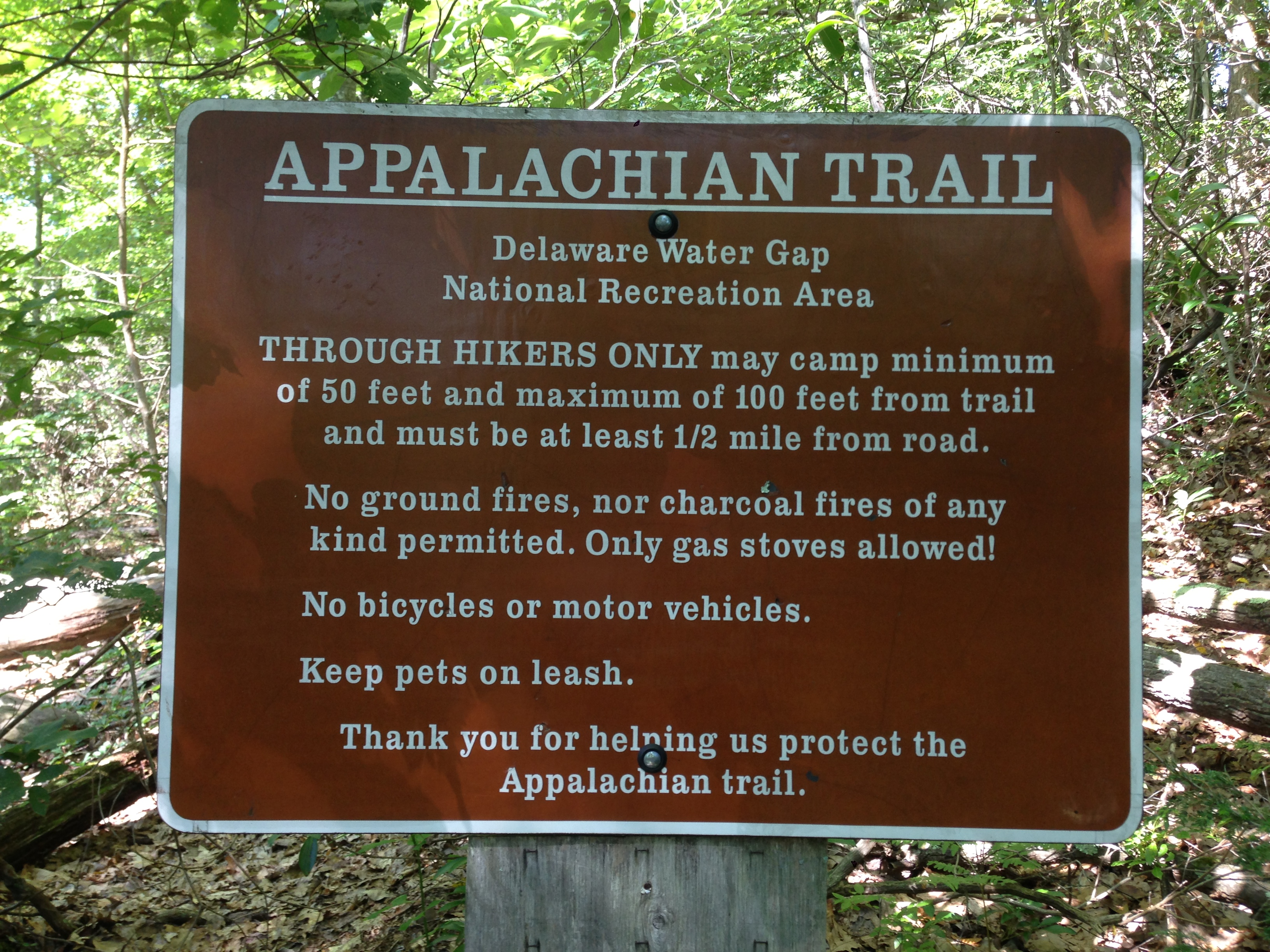 Sign for the Appalachian Trail along Millbrook Road in the Delaware Water Gap National Recreation Area, New Jersey